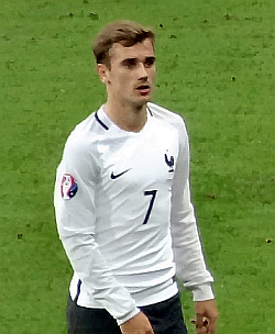 Antoine Griezmann in action for France during UEFA Euro 2016.